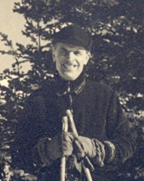 Bulgarian jurist Petko Staynov. Chamkoria, 1934